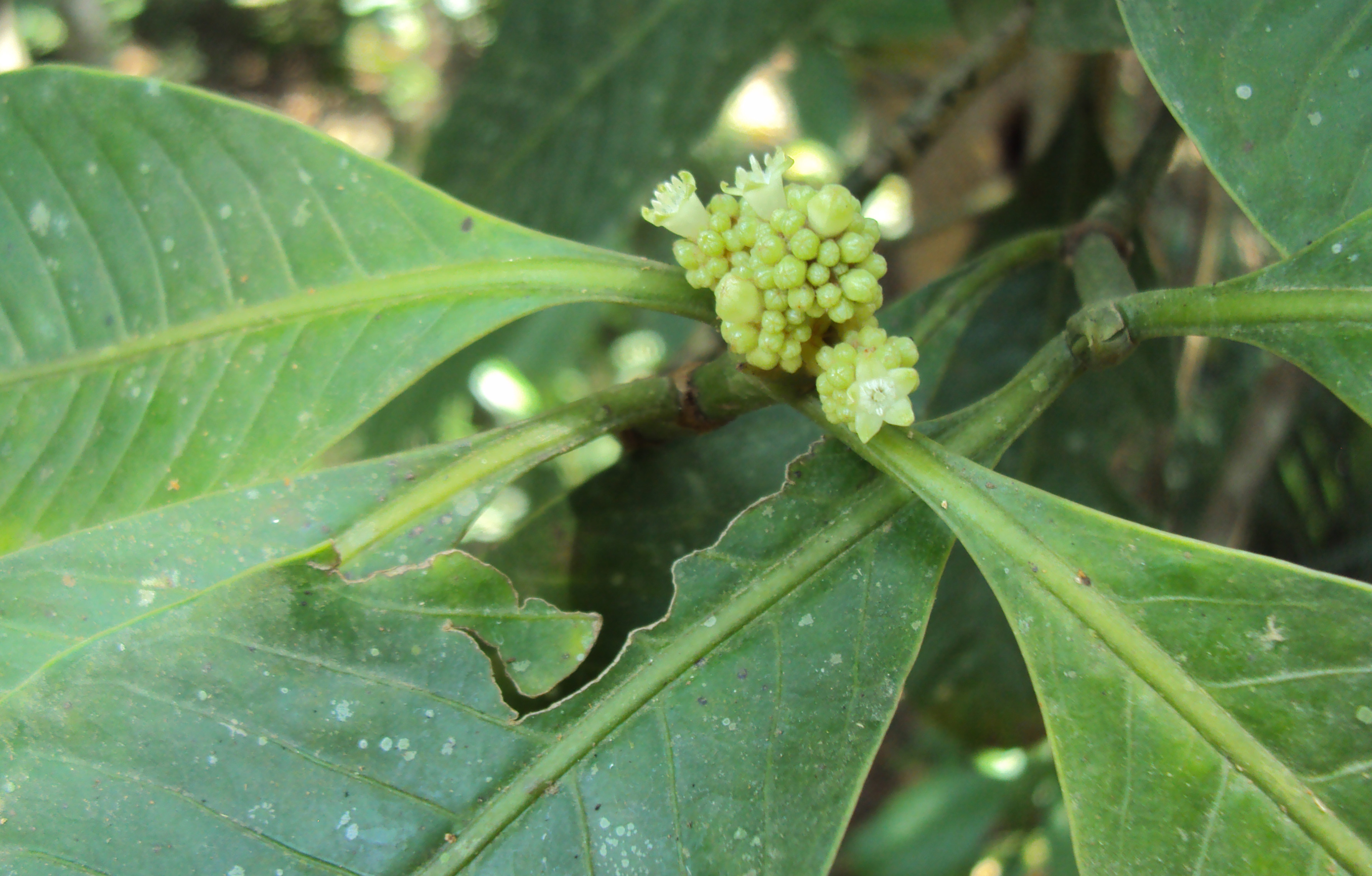 Psychotria dalzellii